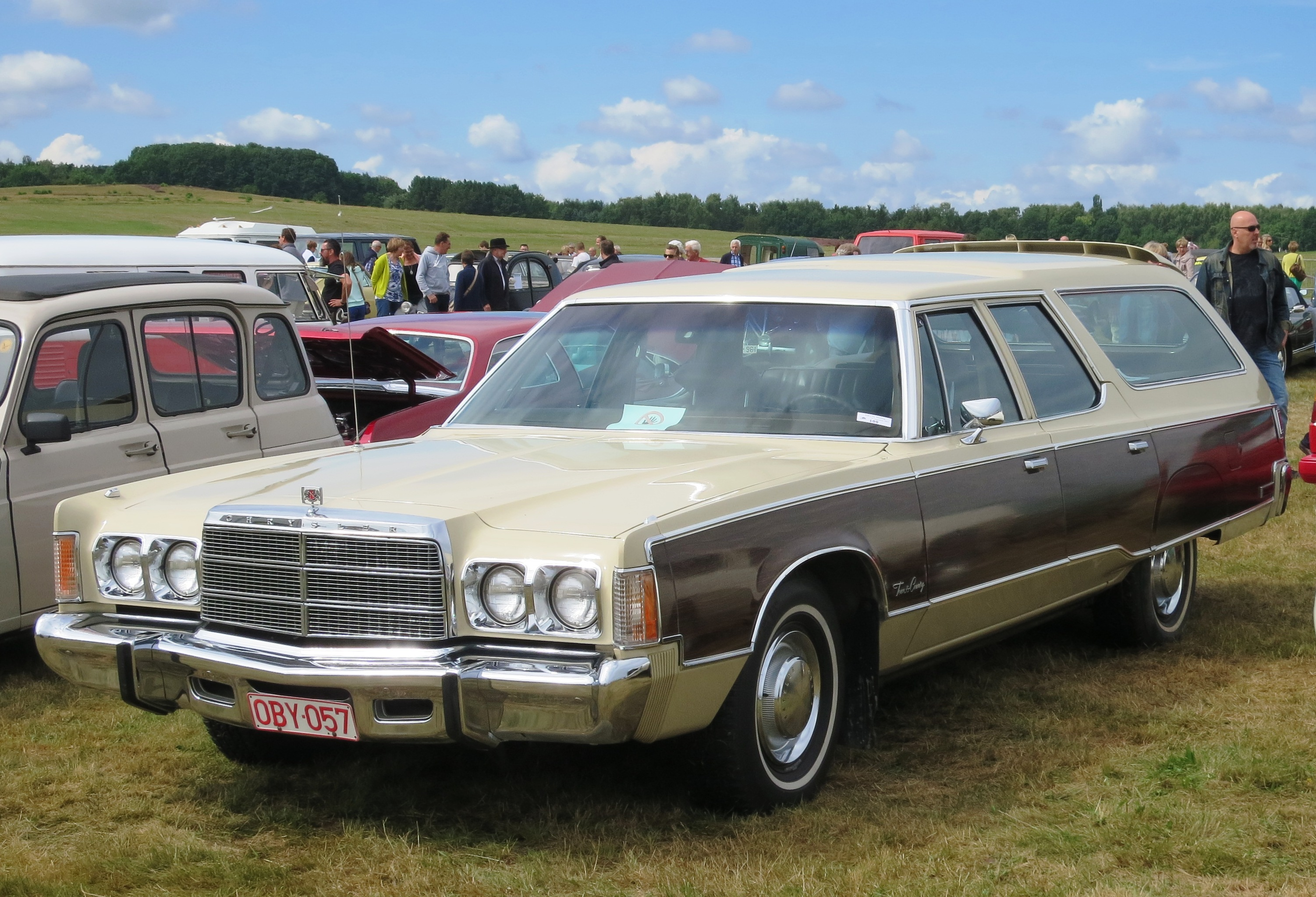 Chrysler Town & Country (1977) in Belgium (2015)